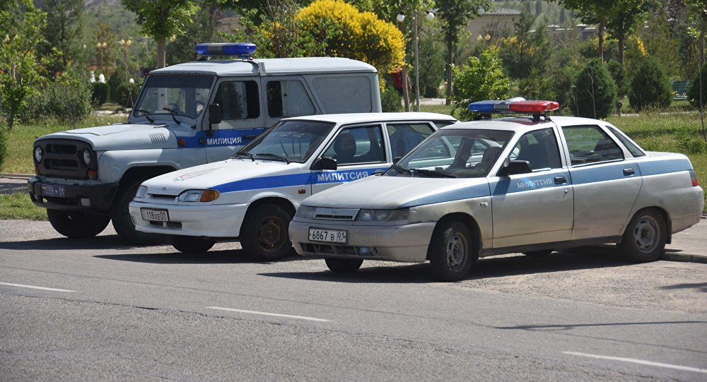 Tajikistan Police cars. UAZ Hunter, VAZ-2114, VAZ-2110.